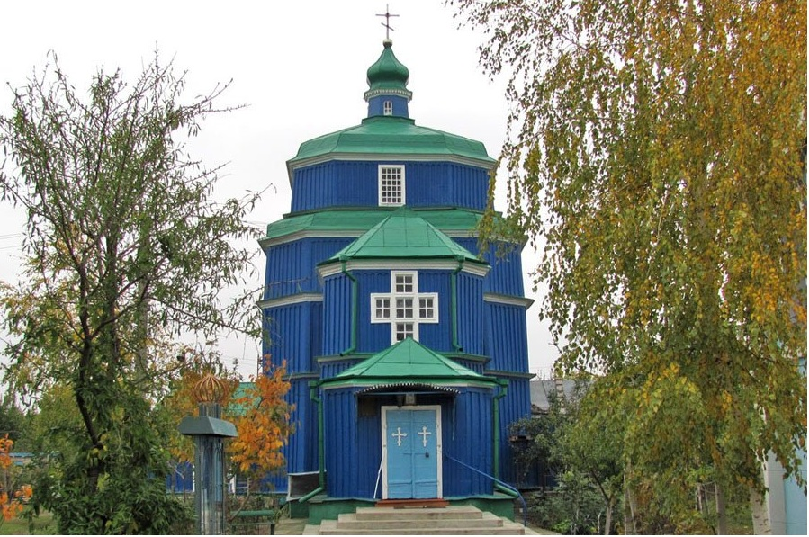 Church of the Presentation of the Blessed Virgin Mary in Beryslav